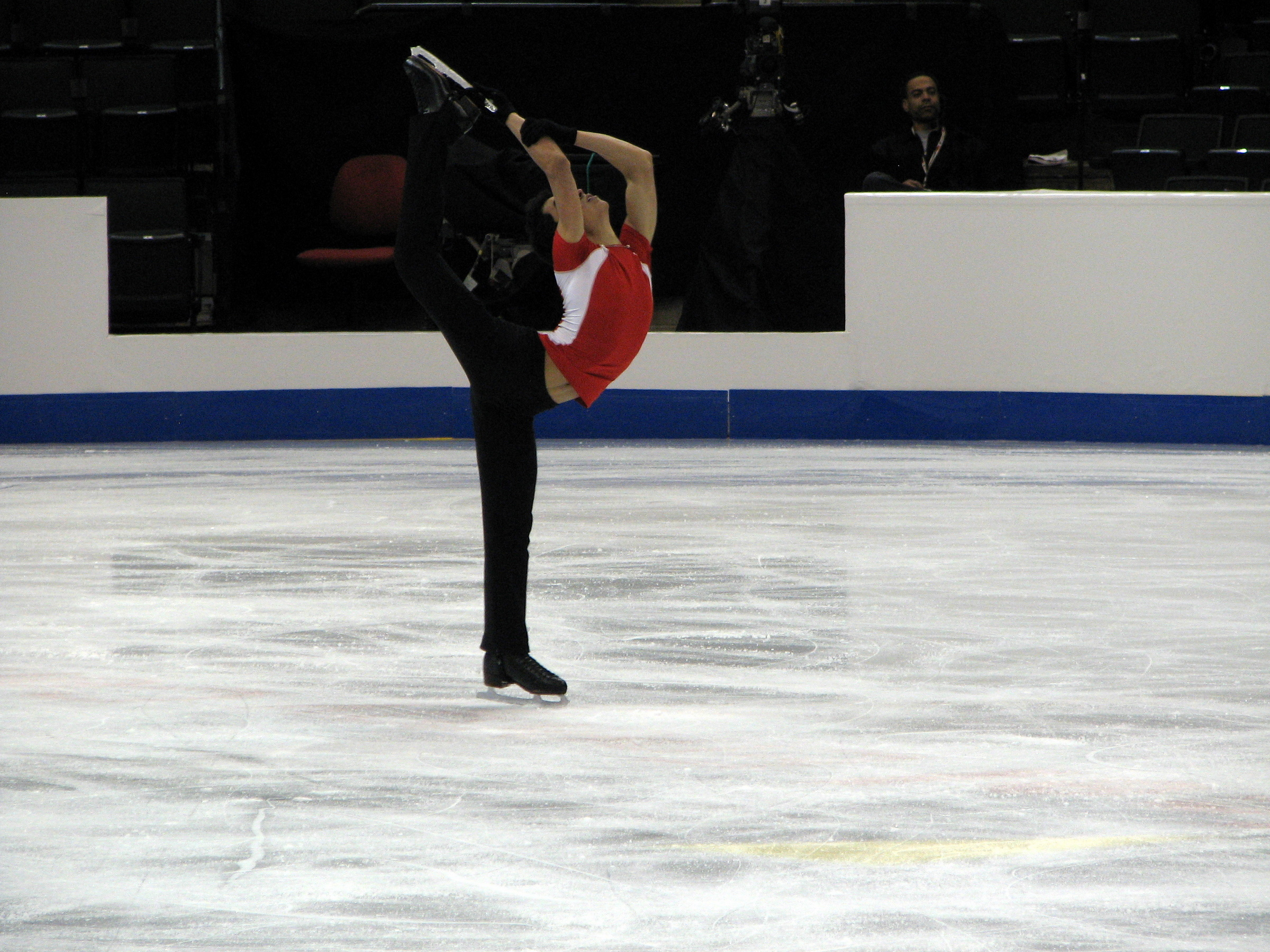 Eliot Halverson performs a Biellmann spin during a practice at the 2008 U.S. Figure Skating Championships.